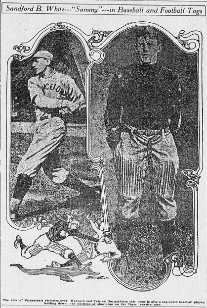 Newspaper article showing Sandford White in baseball and football outfits while at Princeteon.